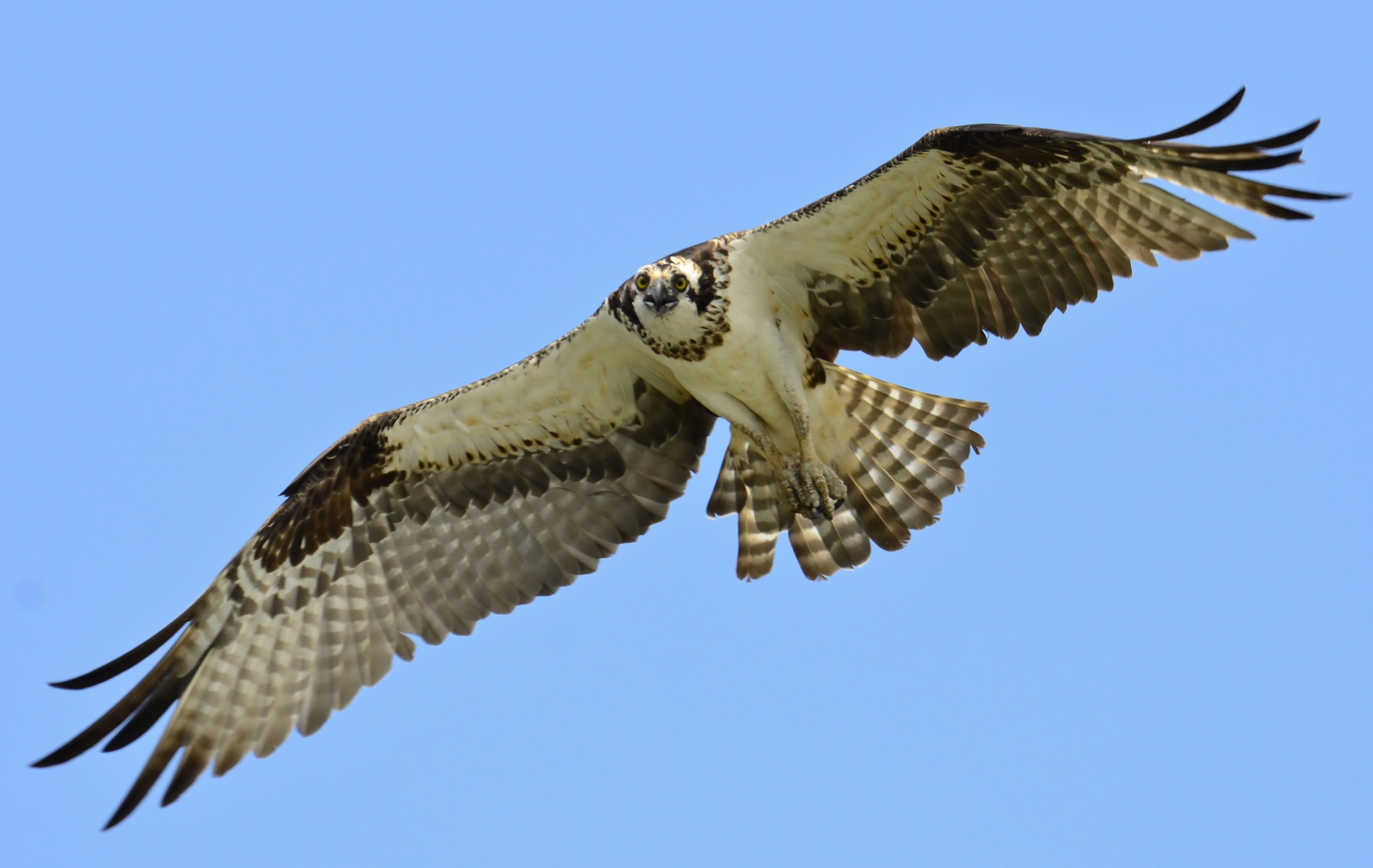 Taken by Gareth Rasberry, Lake Wylie, South Carolina, USA